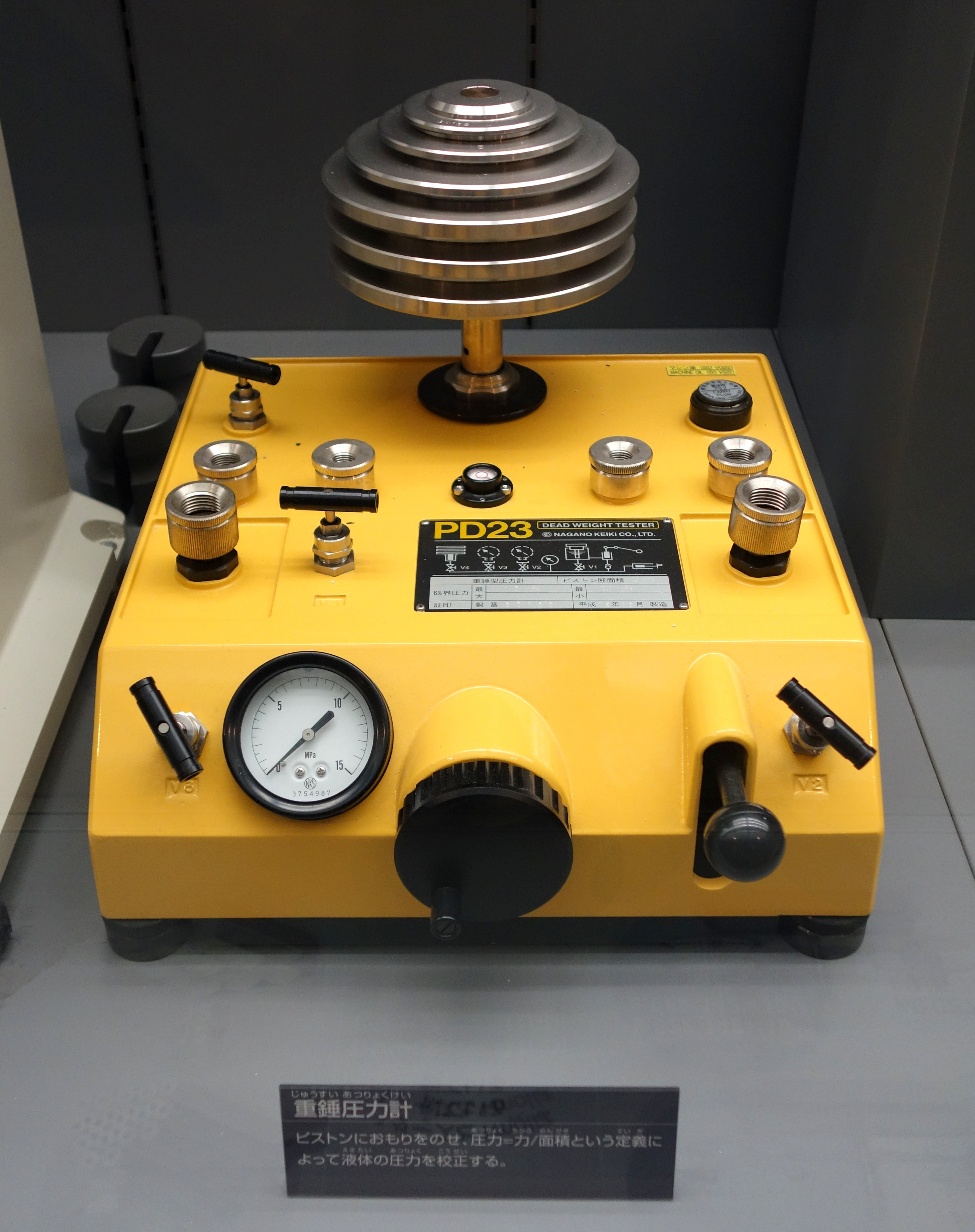 Exhibit in the National Museum of Nature and Science, Tokyo, Japan.